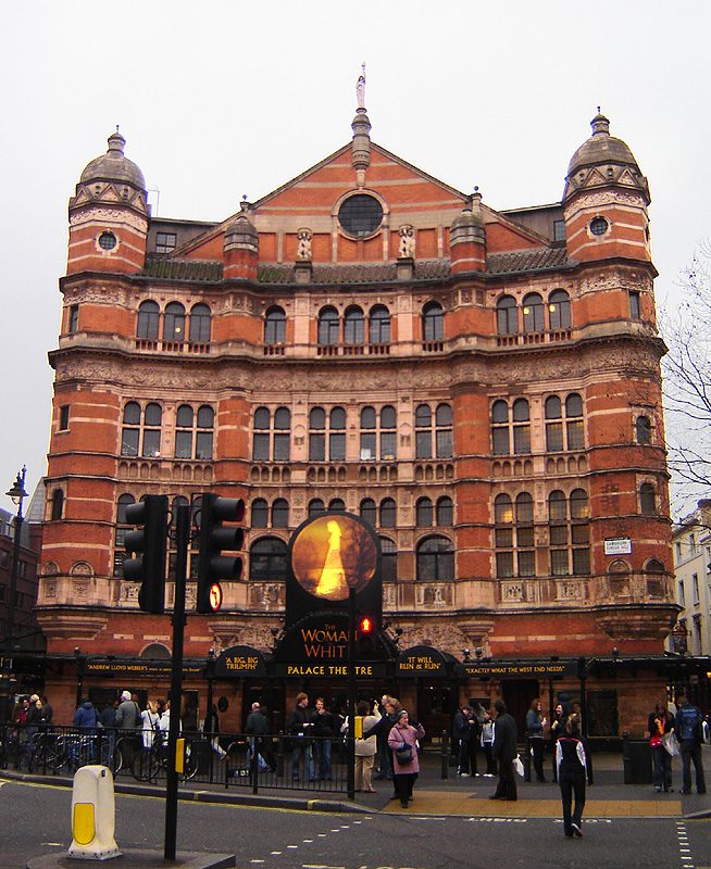 The Palace Theatre, Soho, London. 14 January 2006. Photographer: Fin Fahey.